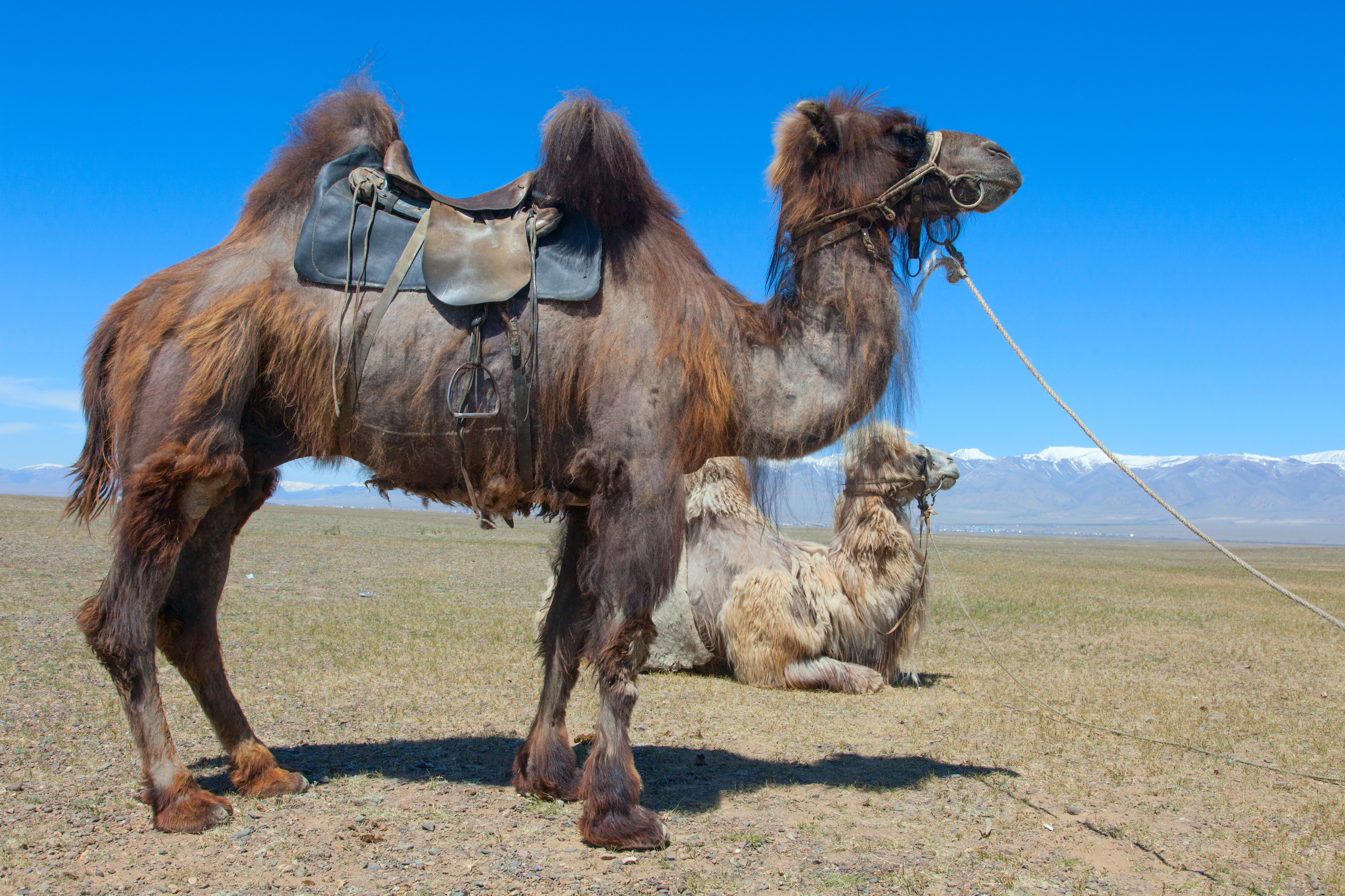 Bactrian under the saddle. Chuy steppe, mountain Altai